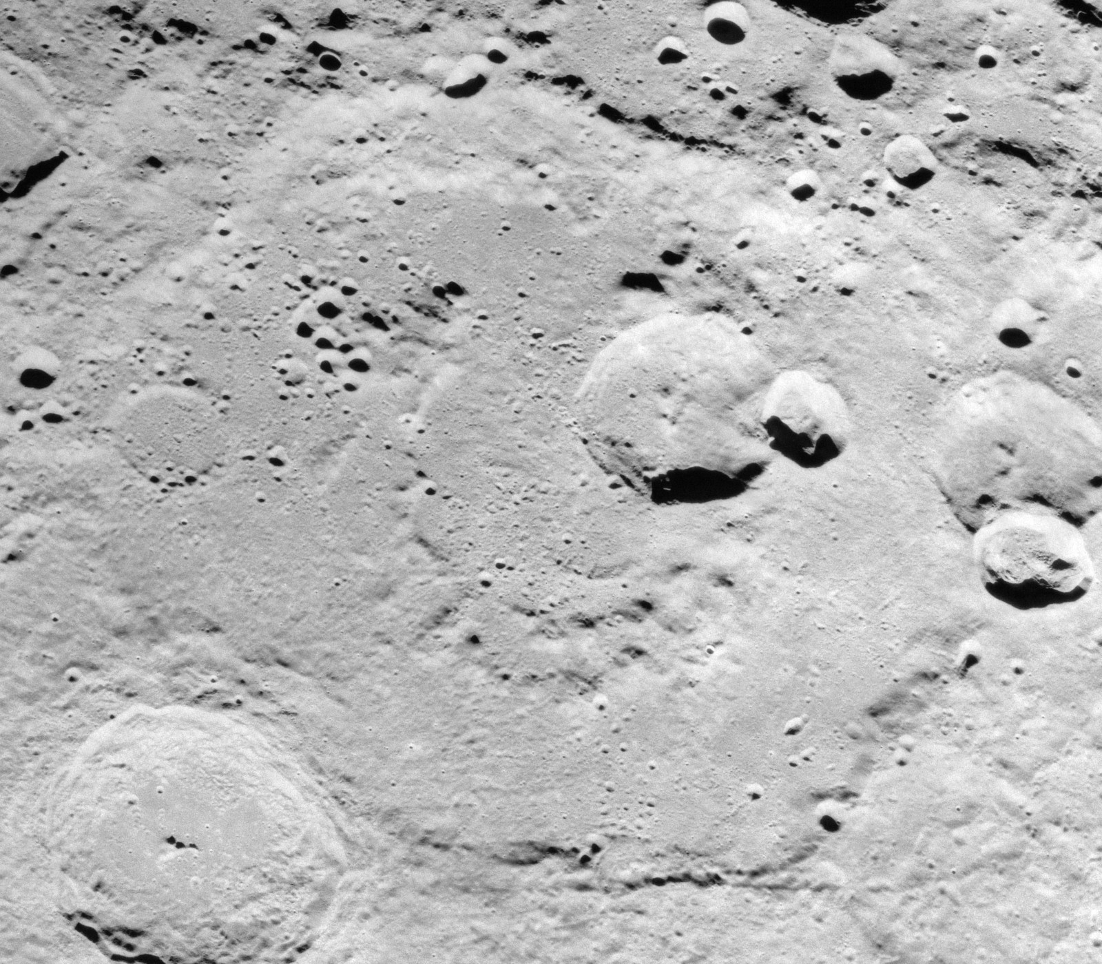 Oblique view of Milne crater, on the moon, facing east. From Apollo 17 mapping camera during trans-Earth injection.